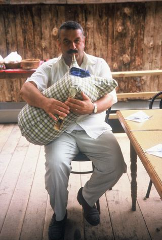 Laz tulum (bagpipe) player from Rize, Turkey. Photographer: Özhan Öztürk From